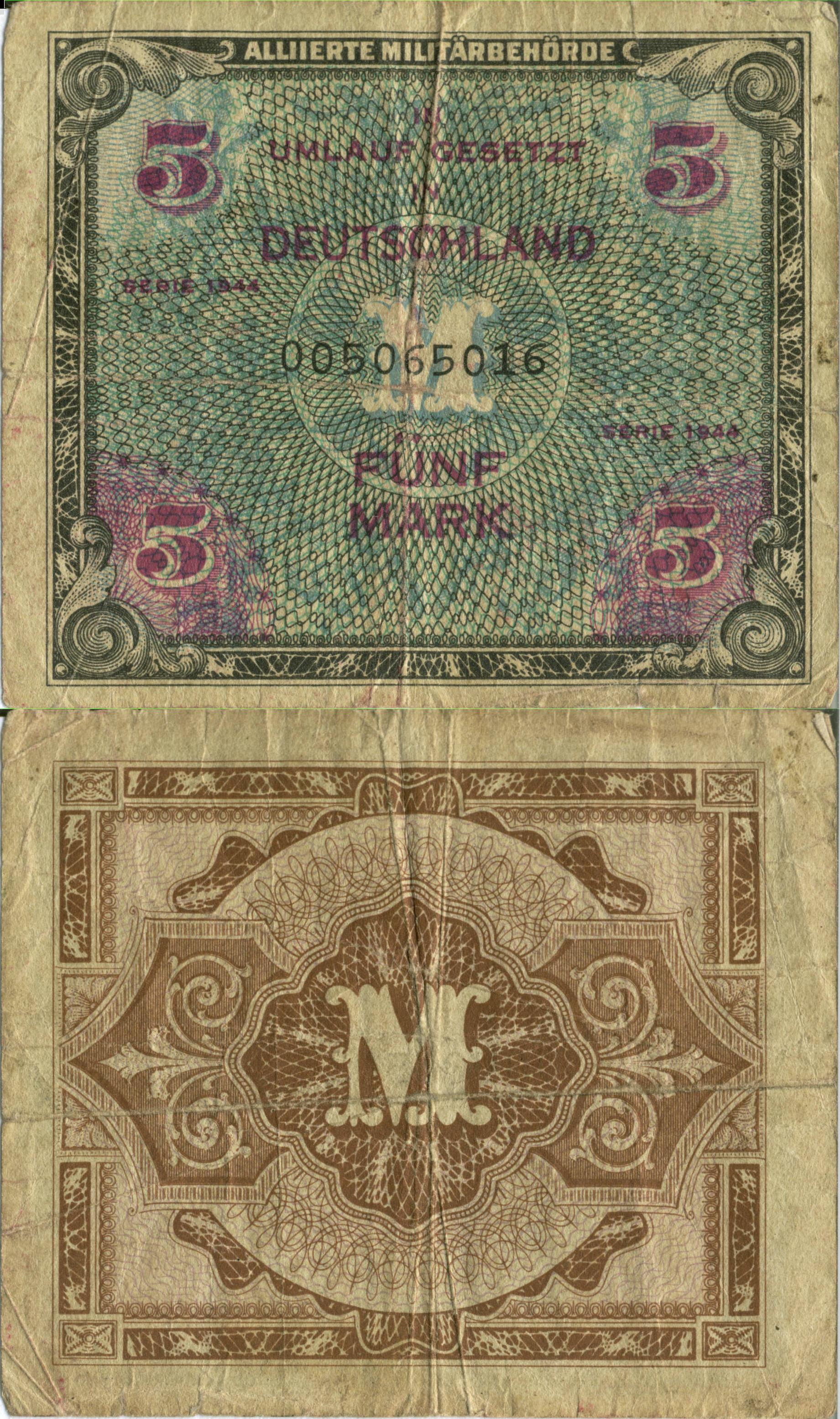 Front and back scan of a 1944 German Military Reichsmark. Image has not been digitally enhanced, westallied issue